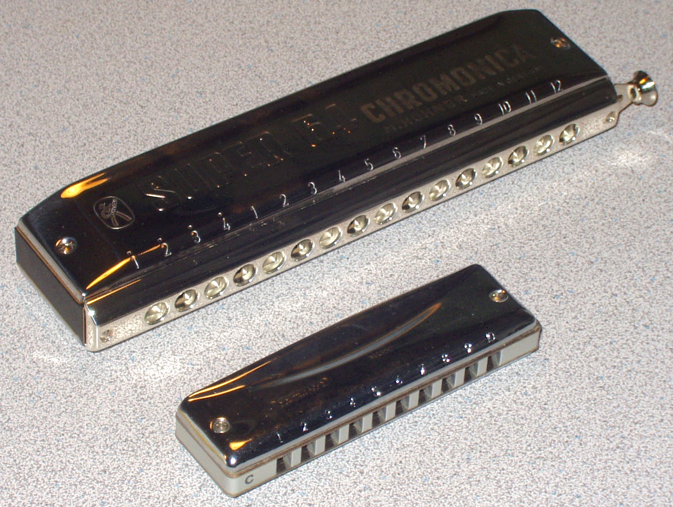 Comparison between 16-hole chromatic and 10-hole diatonic.